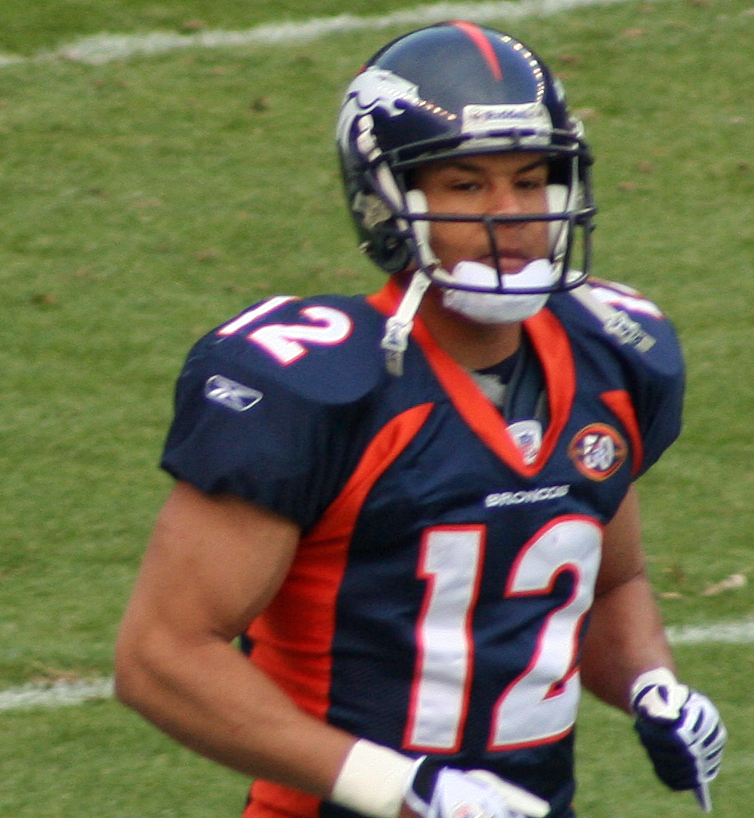 Matthew Willis, a player on the Denver Broncos American football team.